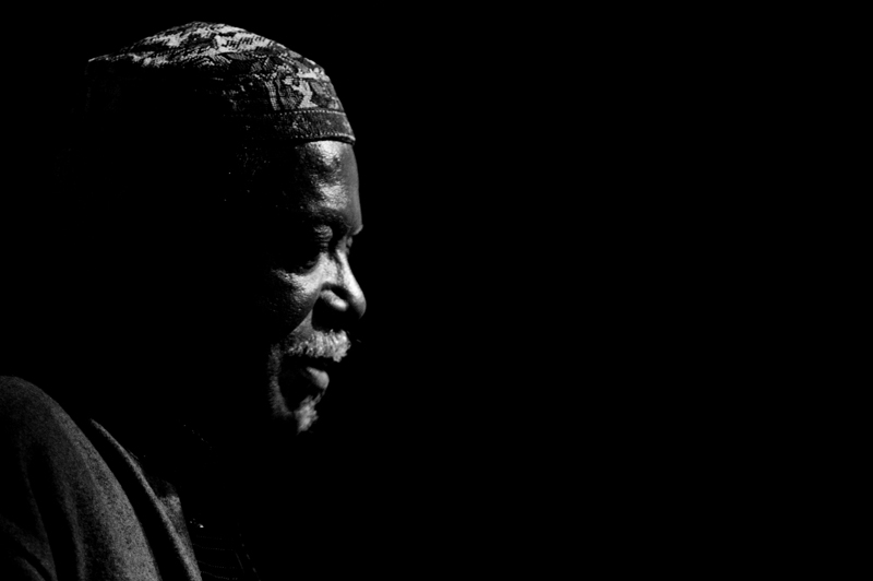 David "Fathead" Newman appearing Live at the Cellar Jazz Club in Vancouver